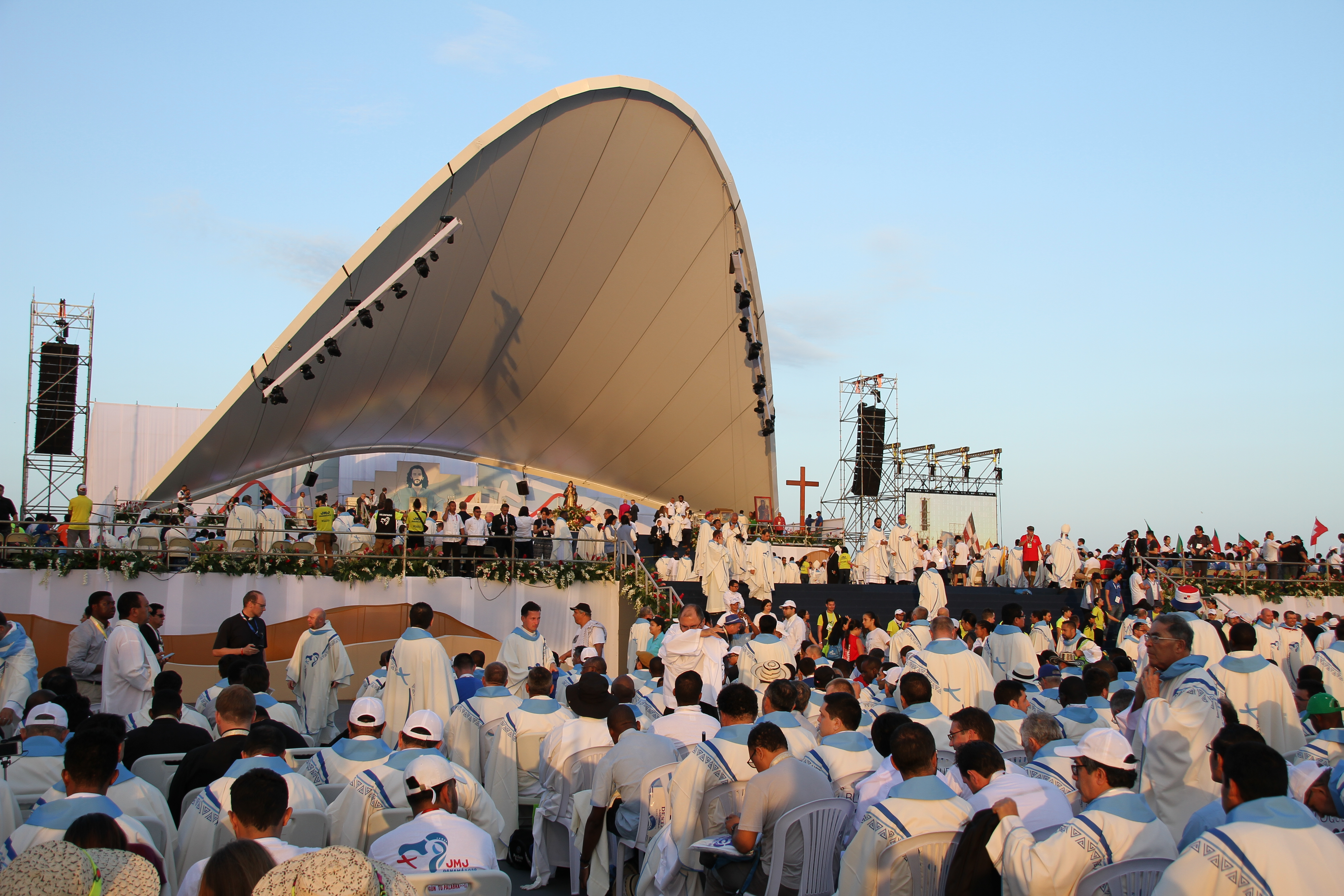 Concluding Mass